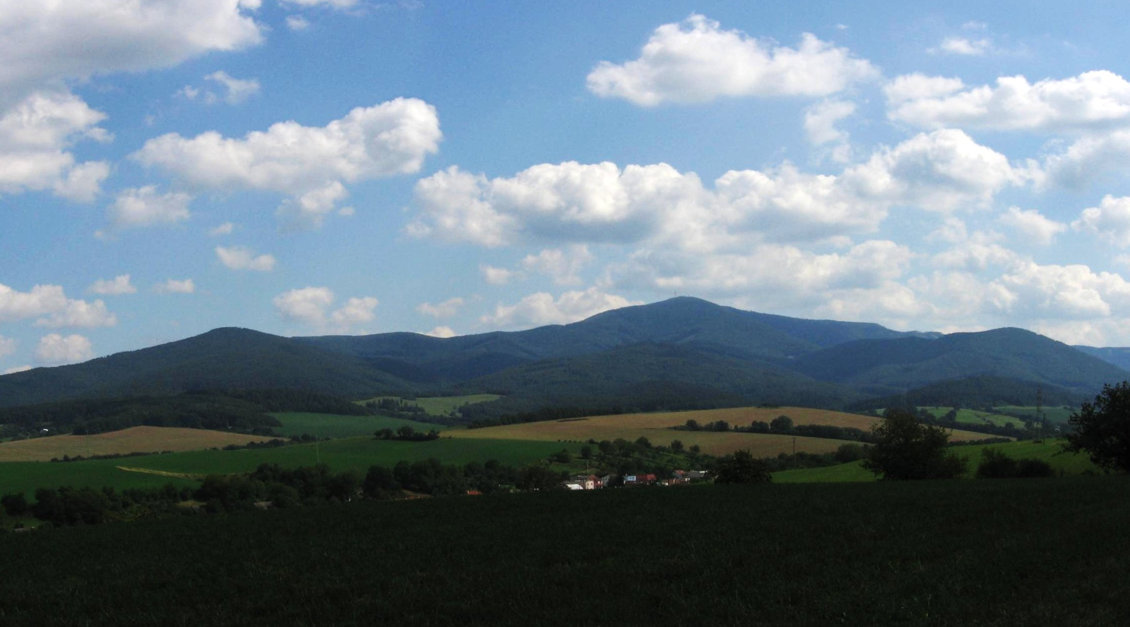 View of Považský Inovec Mts. from the North (near Trenčianske Stankovce), hill with transmitter, approximatly in the centre is the Inovec (1041m), highest summit in the mountain range. Western Carpathians, Slovakia.